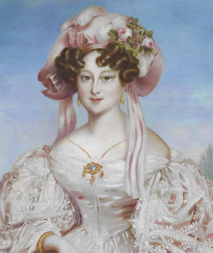 Maria Antonia Kohary (1797—1862)